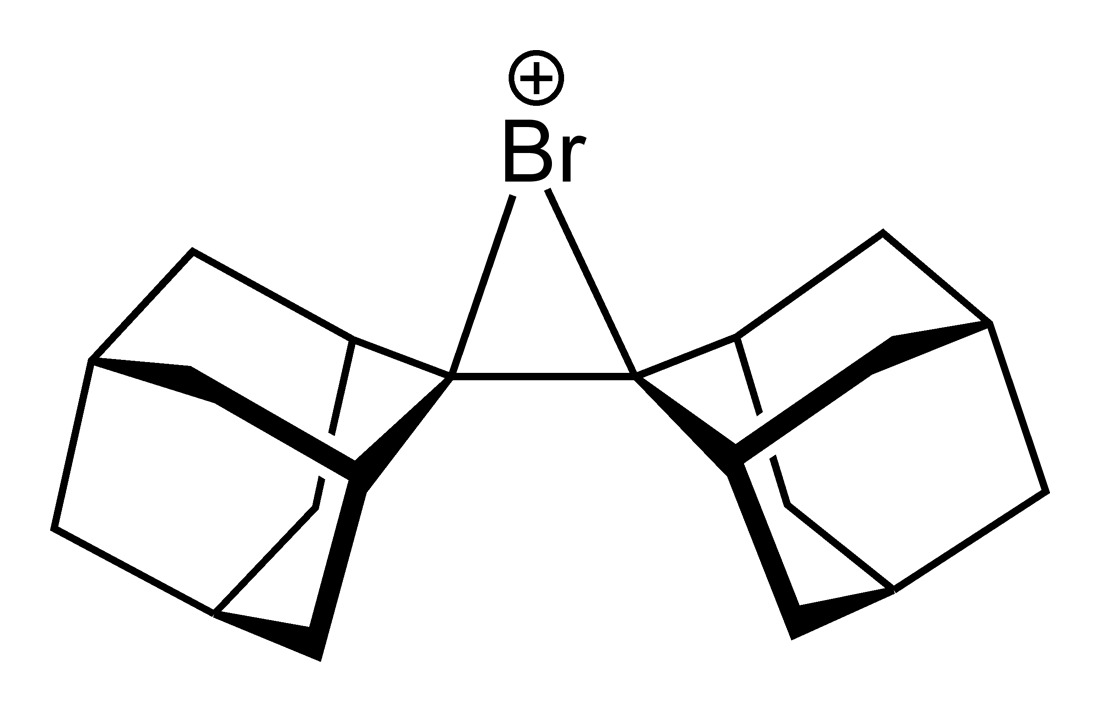 Skeletal formula of the bromonium cation derived from the alkene biadamantylidene, adamantylideneadamantanebromonium, [C20H28Br]+. From the crystal structure of bis(adamantylideneadamantanebromonium) hydroxonium tris(trifluoromethanesulfonate) dichloromethane solvate, ([C20H28Br]+)2([H3O]+)([F3CSO3]−)3(CH2Cl2), C44H61Br2Cl2F9O10S3. Crystal structure by X-ray diffraction from J. Am. Chem. Soc. (1994) 116, 2448–2456. Structure drawn in ChemDraw Ultra 11.0.